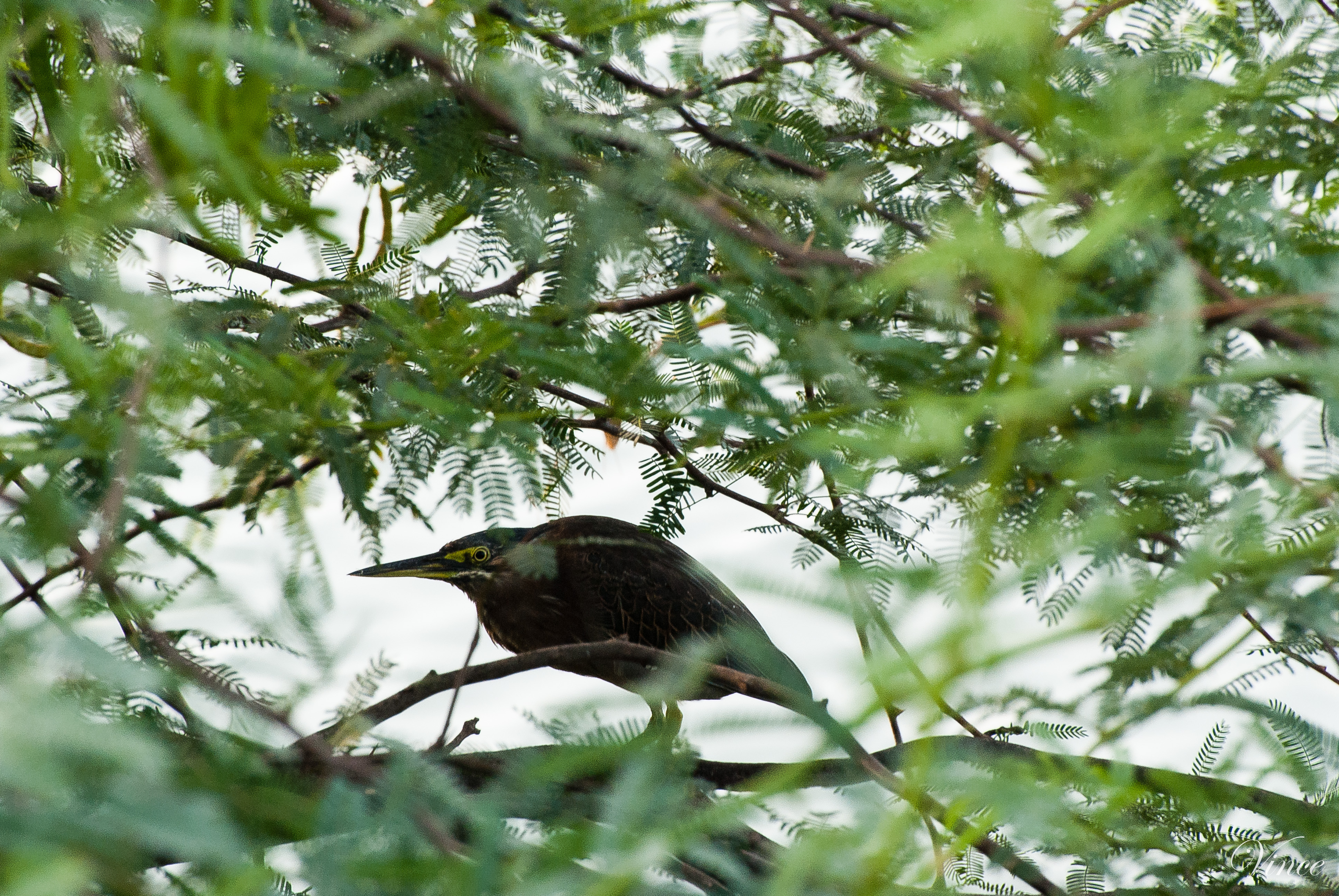 a Striated Heron in hiding behind a bush, shot at ECR, Chennai, TN, India